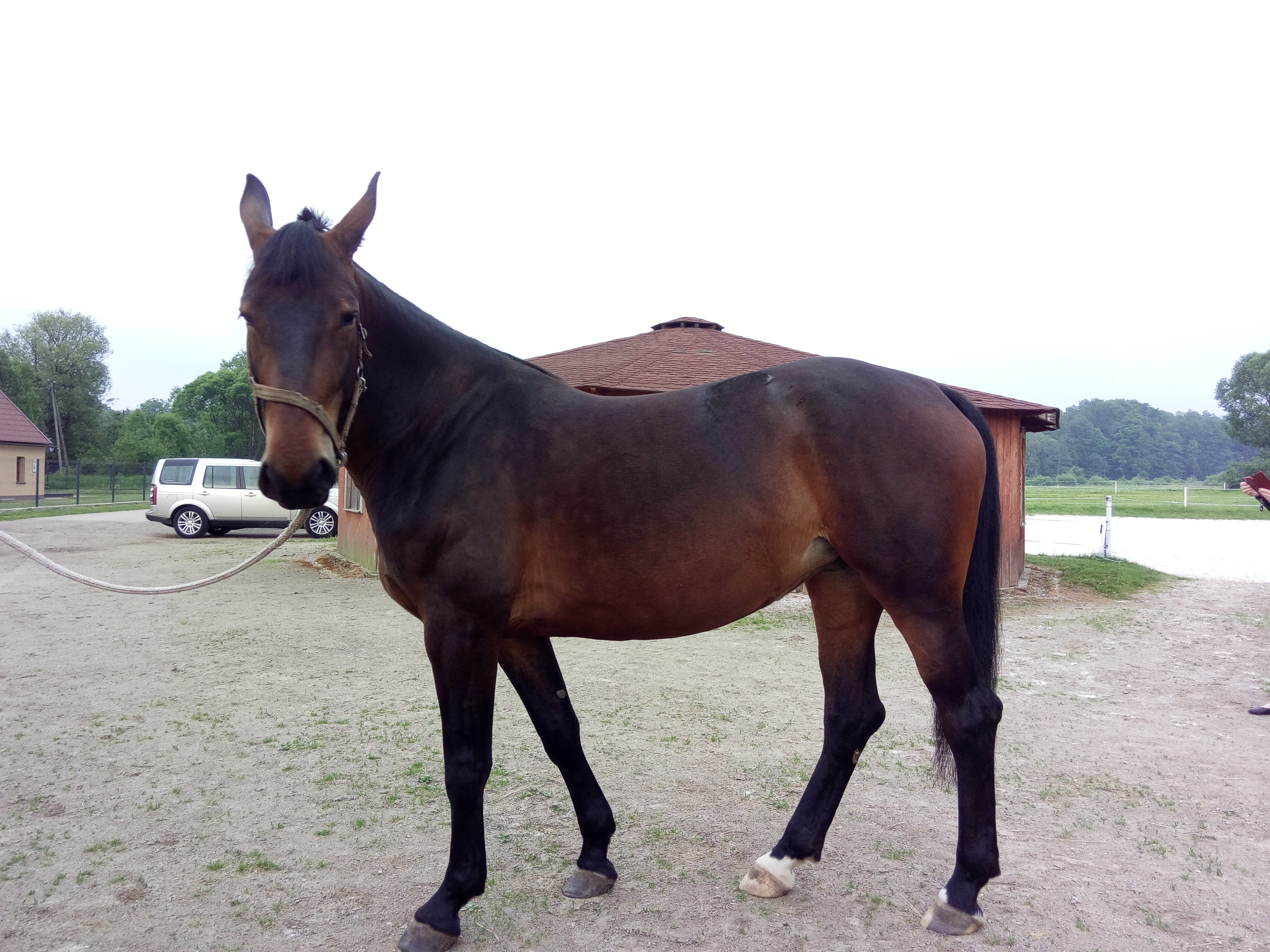 Energia, bay mare of silesian horse. 4 years old.